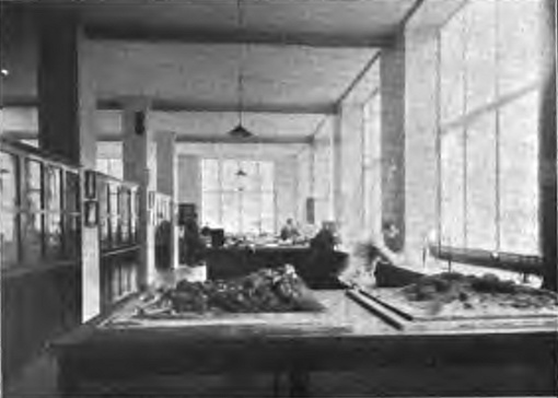 Black-and-white photograph of the Laboratory of Tropical Medicine of Johnston Laboratories at the University of Liverpool, Liverpool, England, in the United Kingdom. This photograph dates from the formal opening of the laboratories in 1903. "These are situated on the first floor of the Johnston Laboratories, and are contained within a large room, about 95 feet long and 35 feet broad. The main part of the room is devoted to students, but three chambers are partitioned off for the special use of persons who wish to do research work in connexion with Tropical Medicine and Parasitology, each of these rooms having all fittings and appliances for this purpose. One end of the floor contains the professor's room and the incubator room. The whole is walled with white glazed tiles. The floor is rendered impermeable by a layer of deep red lito-silo. Along the walls of the whole floor there runs a bench for microscope work, covered with a thick layer of sea-blue lito-silo. Electric light, gas, and water are suitably fitted at distances of every four yards of this bench for the use of students. The partitions of the room are fitted with cupboards, in which the museum of tropical diseases, which the school is now purchasing, is being arranged. Steam is also laid on to the laboratory, which possesses all the necessary apparatus. There is accommodation for quite forty workers in the new laboratory of the school."